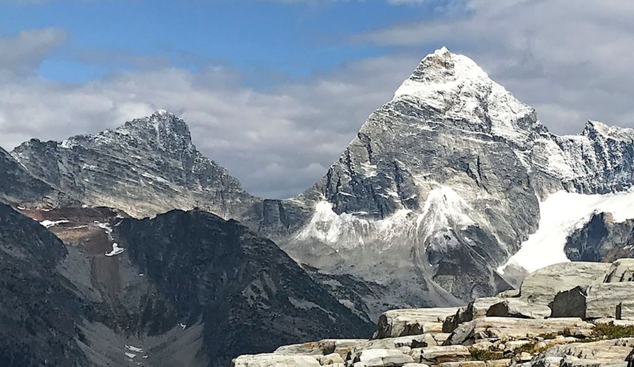 Uto Peak (left) and Mount Sir Donald seen from Abbott Ridge in British Columbia, Canada